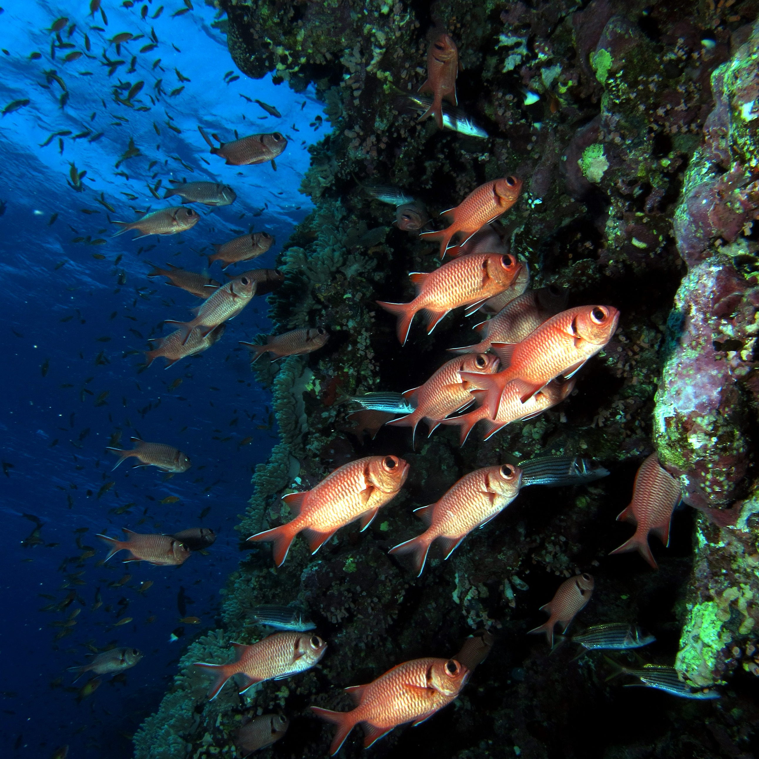 School of Blotcheye Soldierfish, Myripristis murdjan at Elphinstone Reef, Red Sea, Egypt #SCUBA